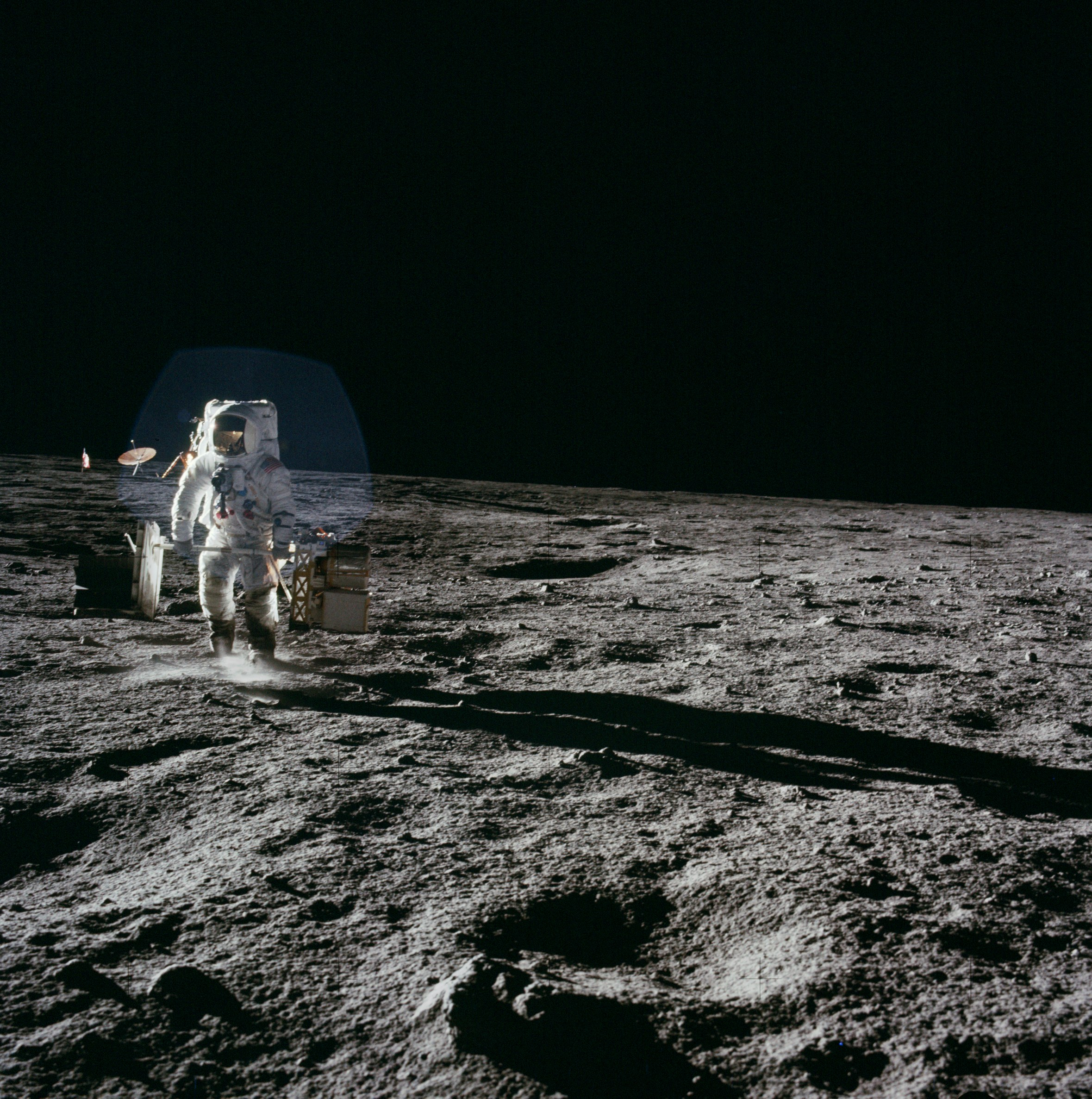 Alan Bean carries the ALSEP to the deployment site.